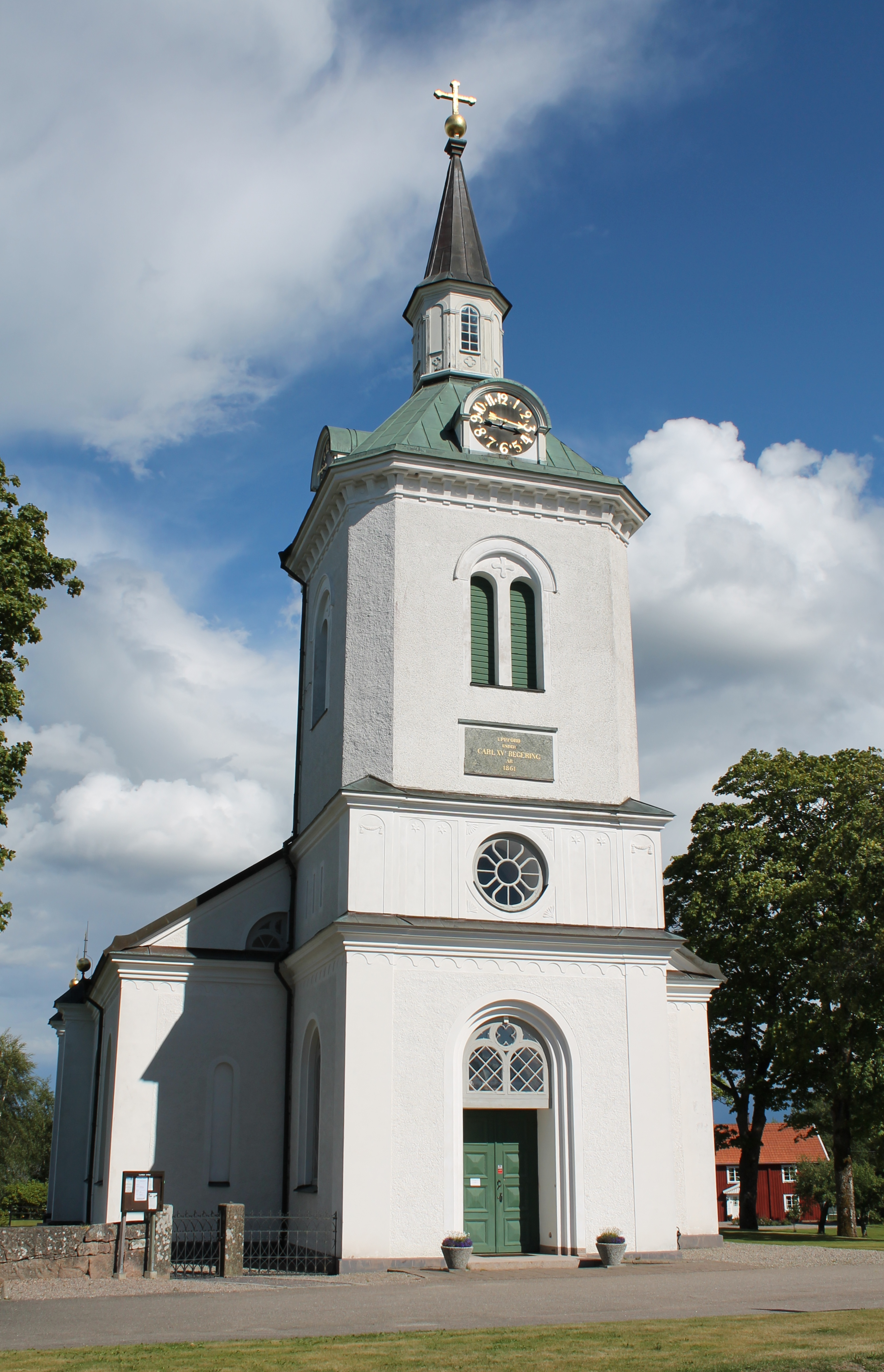 Tjureda Church.The church was built of stone in historicizing among style and consecrated in 1862 by Bishop Henrik Gustav Hultman.